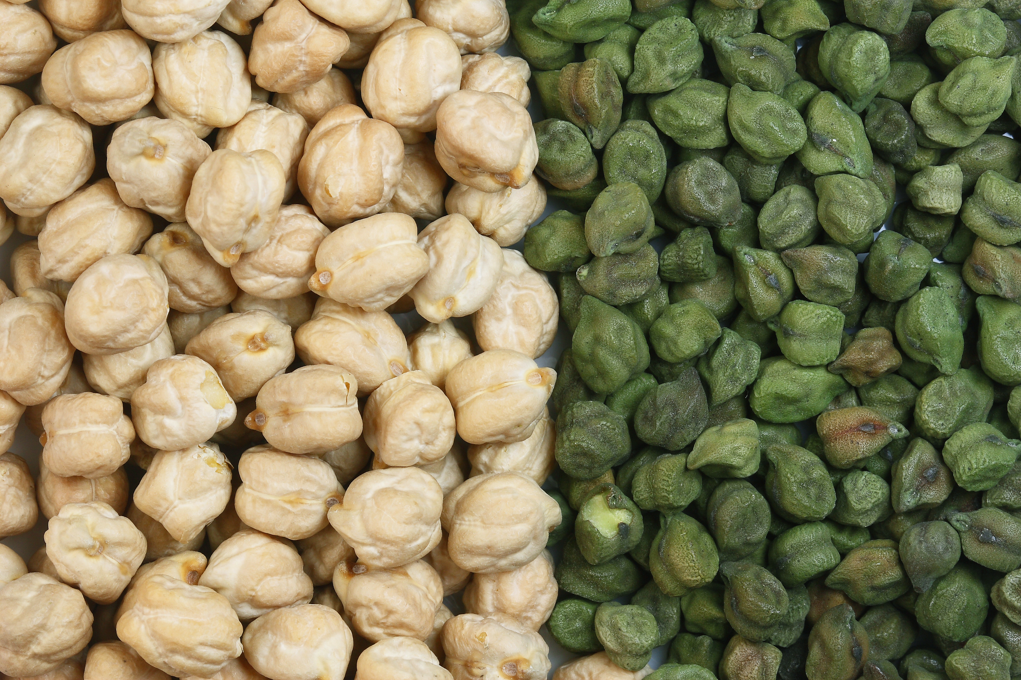 White and green chickpeas (Cicer arietinum)